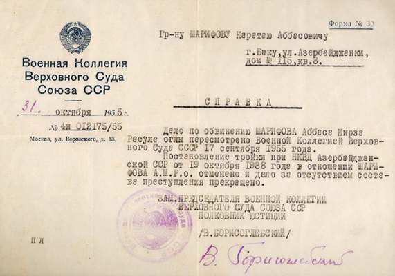 Decriminalization certificate of Sharifzade